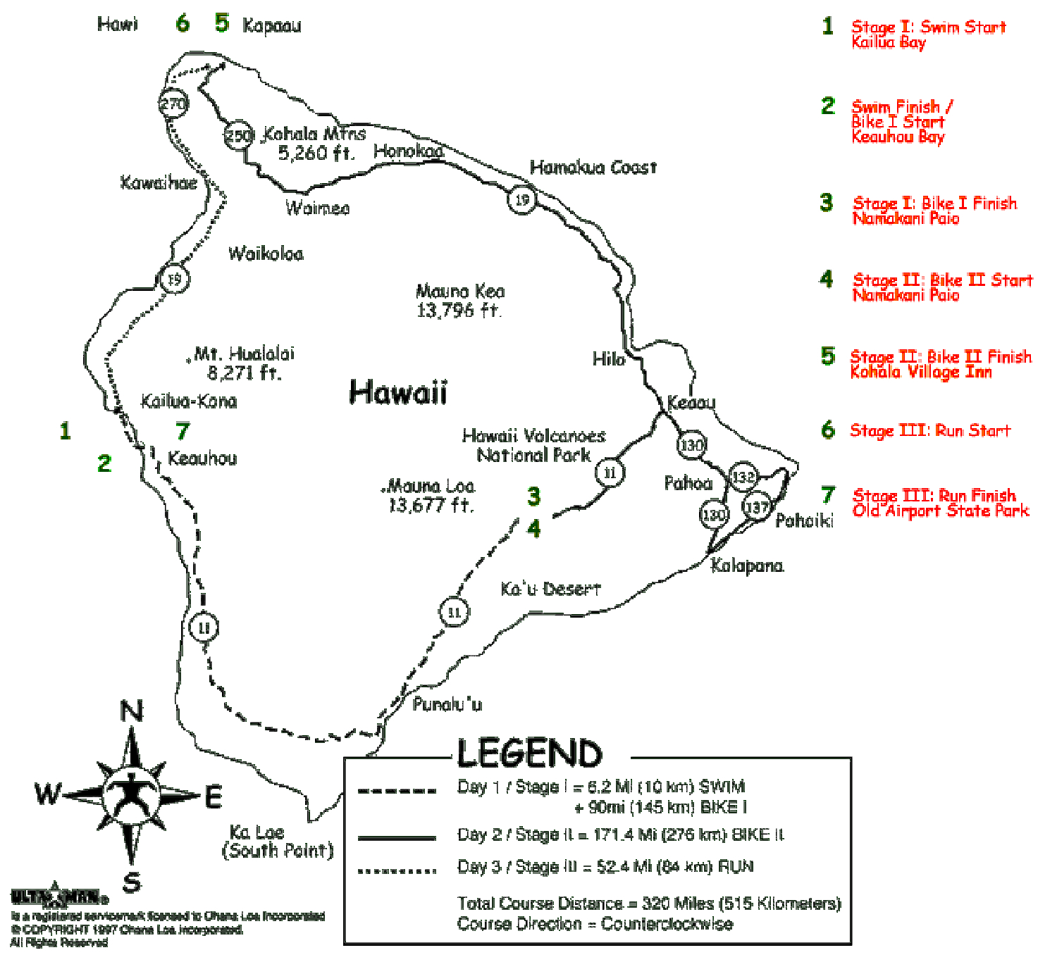 Clear and concise map of the route for each stage taking participants around The Big Island of Hawai'i